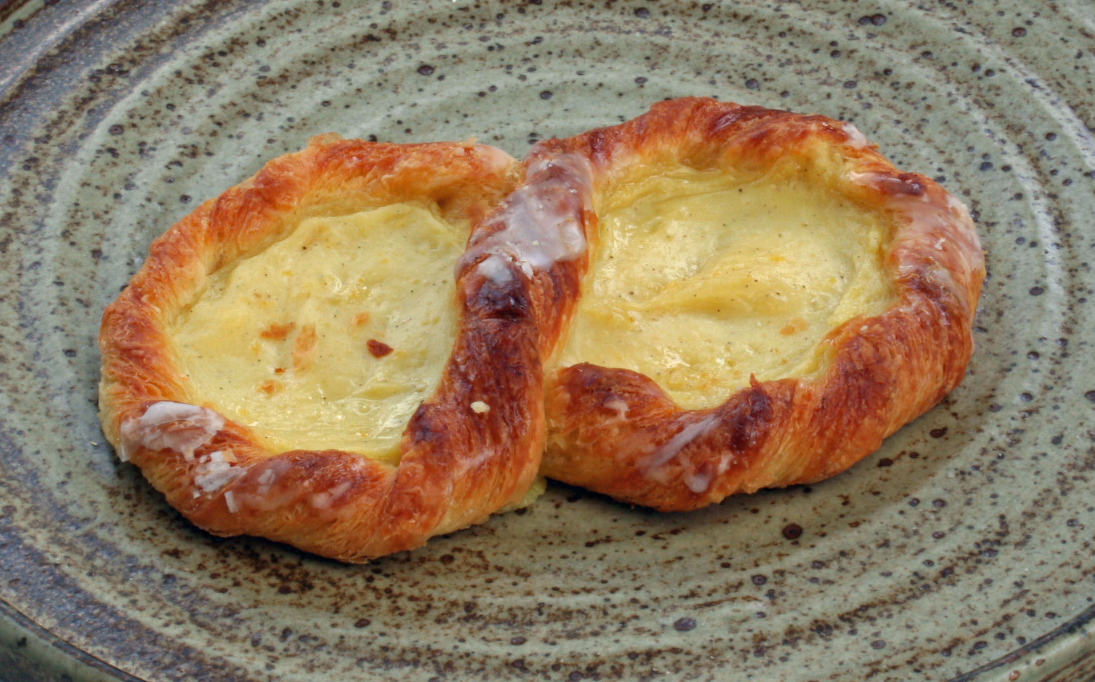 Pastries in the shape of eight.